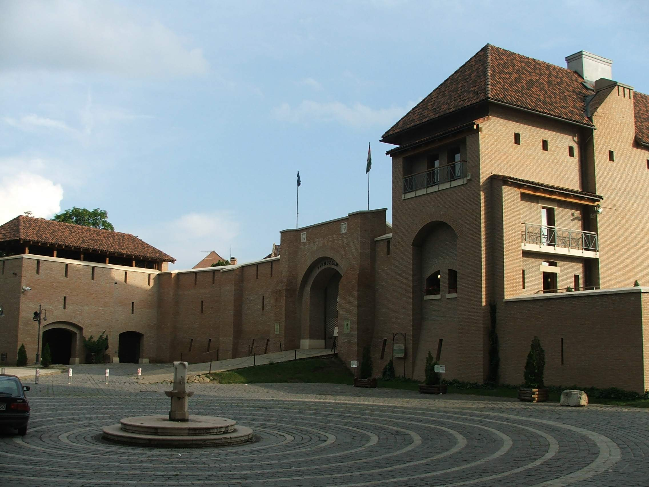 Entrance of the Castle Museum in Esztergom, Hungary